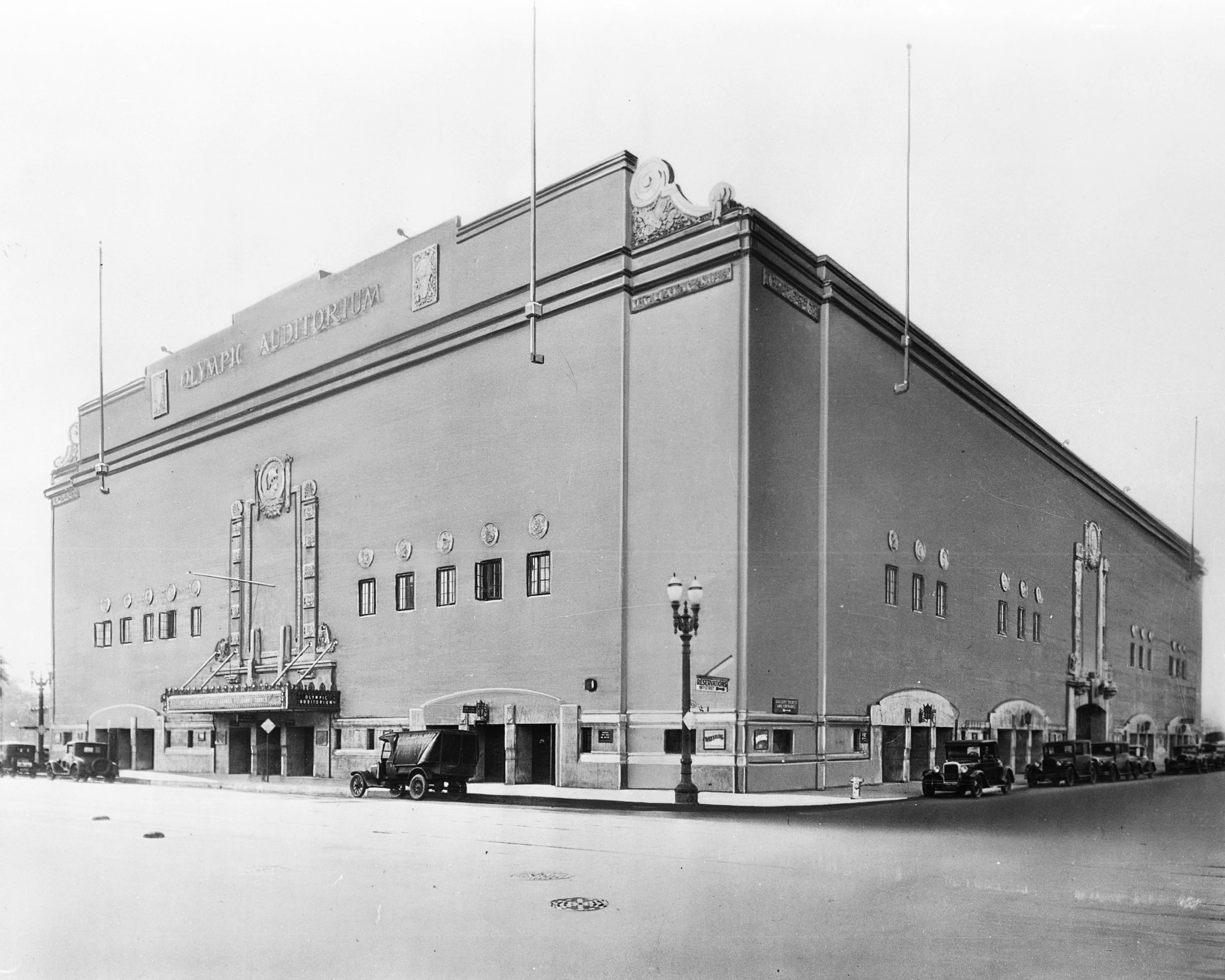 Photograph of an exterior view of the Olympic Auditorium in Los Angeles, ca.1920-1929. The large rectangular building can be seen on a street corner at center. The main entrance, topped by a marquee, can be seen at left, while a side door can be seen at right. A single row of rectangular windows can be seen about halfway up the light-colored walls. Early-model automobiles can be seen parked along the curbs in front of the building. Large flagpoles can be seen on the four corners of the building, while the name of the venue can be seen at left.